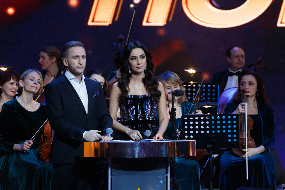 Zarifa Mgoyan